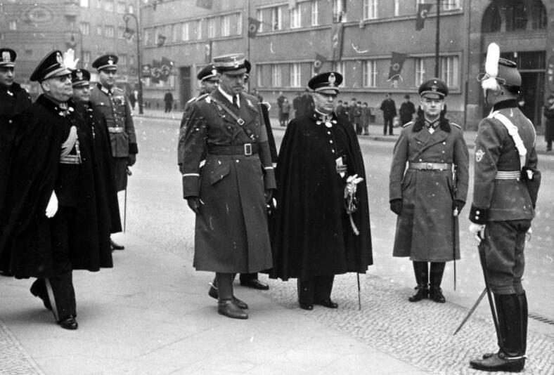 Information added by Wikimedia users.*